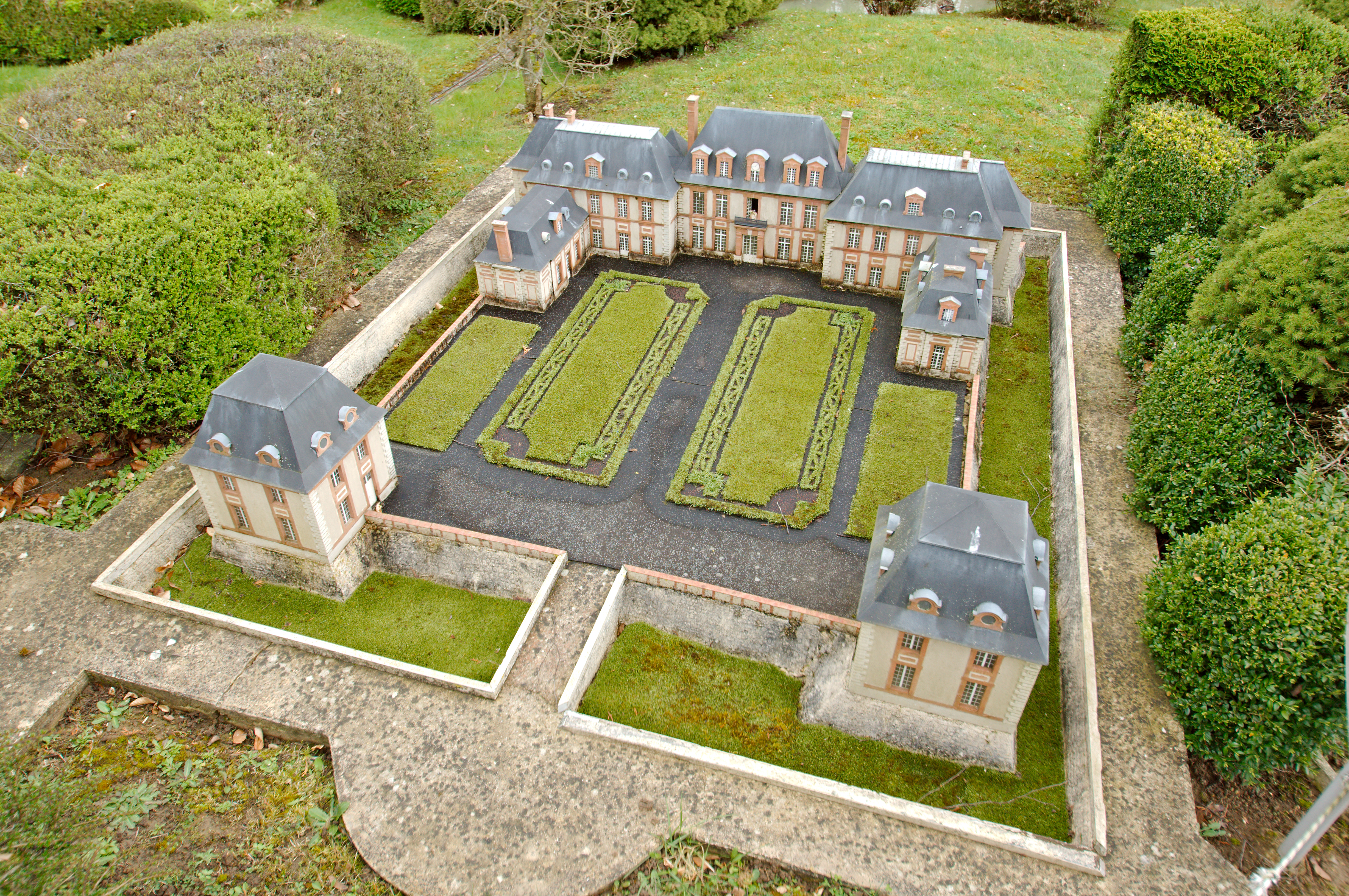 France Miniature, a miniature park tourist attraction in Élancourt, France.